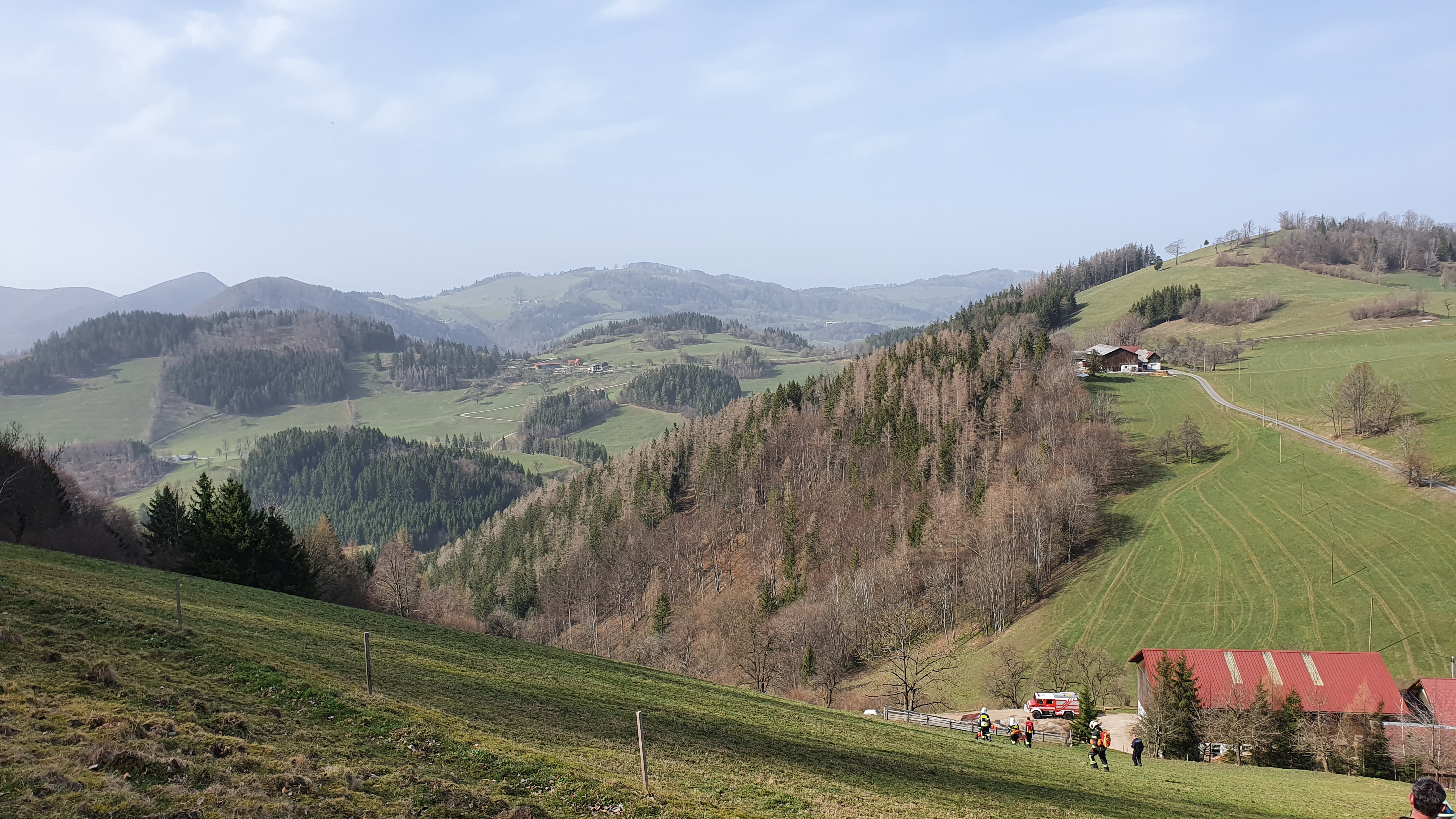 Rescue of a person in an alpine terrain in Schroffengegend, Loich, Austria